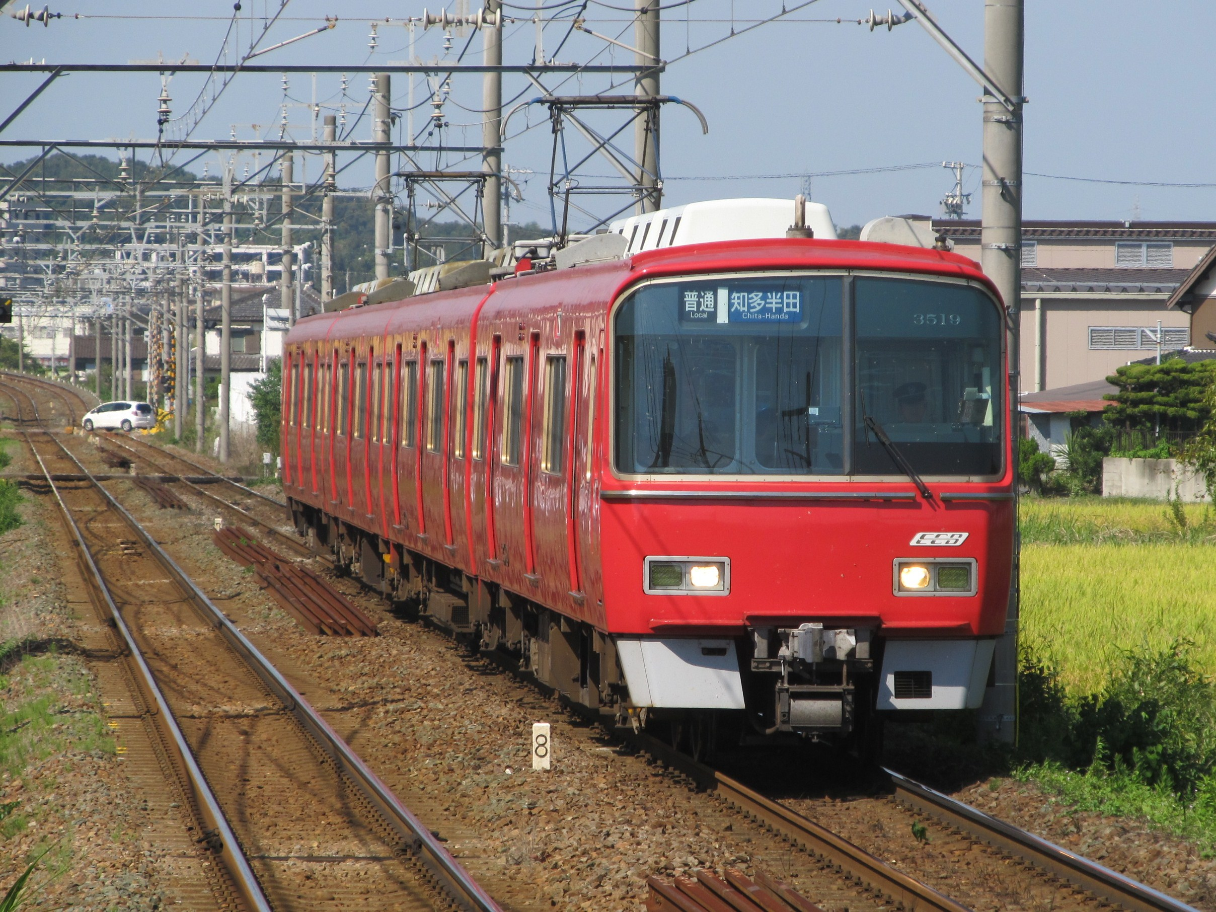 Meitetsu 3500 series. Bound for Chita Handa.